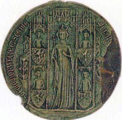 Queen Blanche of Sweden and Norway as depicted on her royal seal